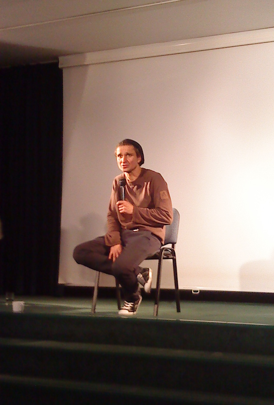 Janusz Radek, Polish vocalist and actor, during a meeting with students and teachers of Zofia Nałkowska High School in Kraków.